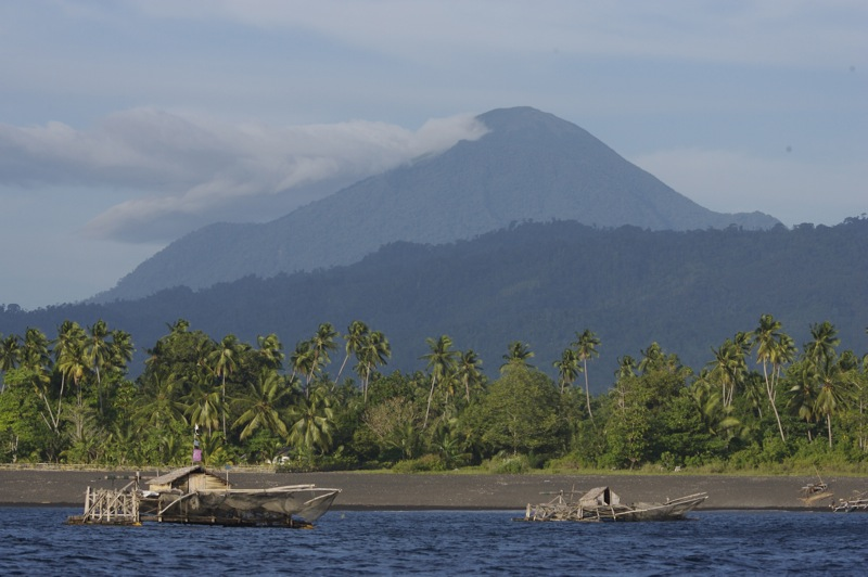 Looking toward Gunong Tangkoko , From the sea _Q0S0160